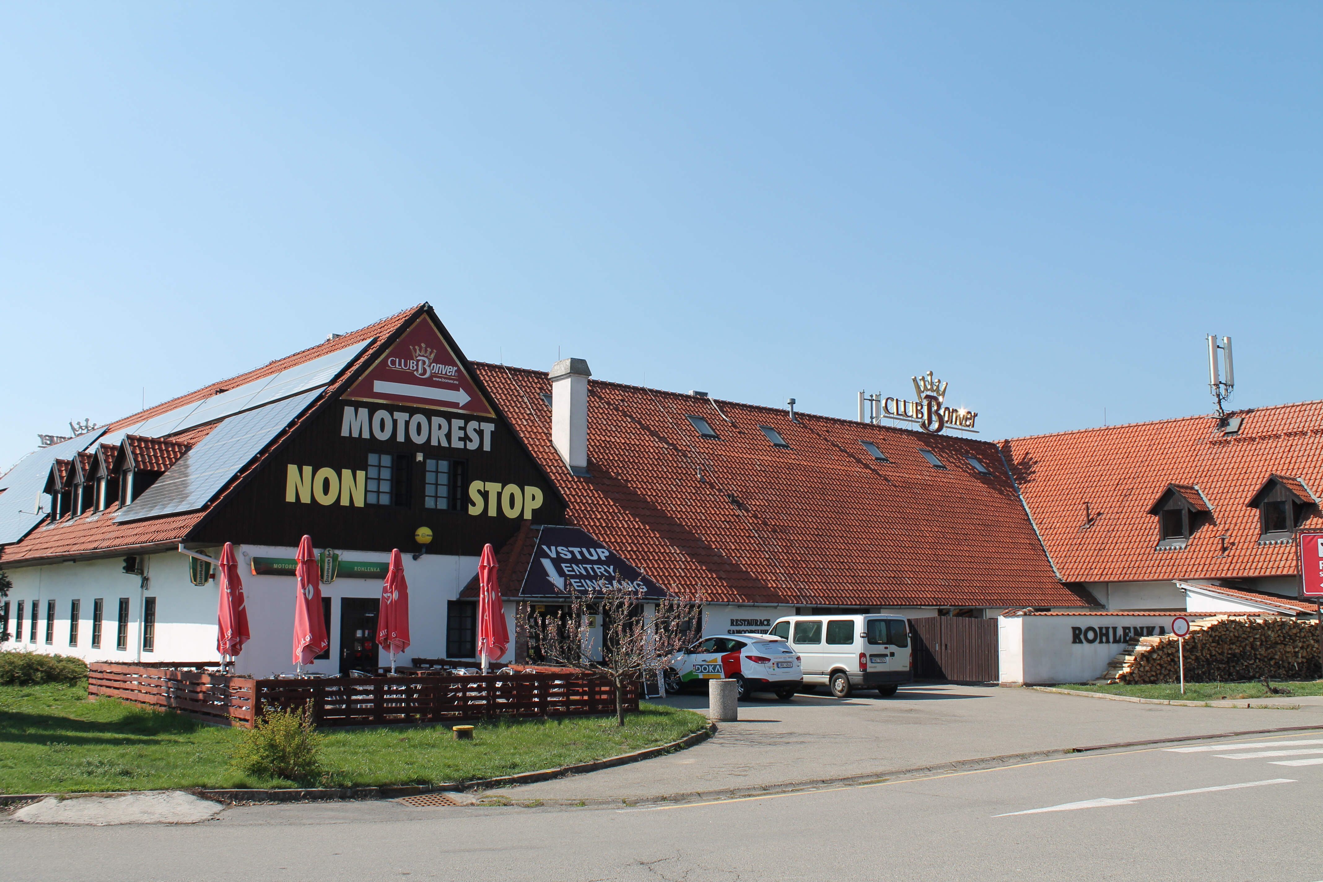 Rohlenka restaurant, Jiříkovice, Brno-Country District, Czech Republic